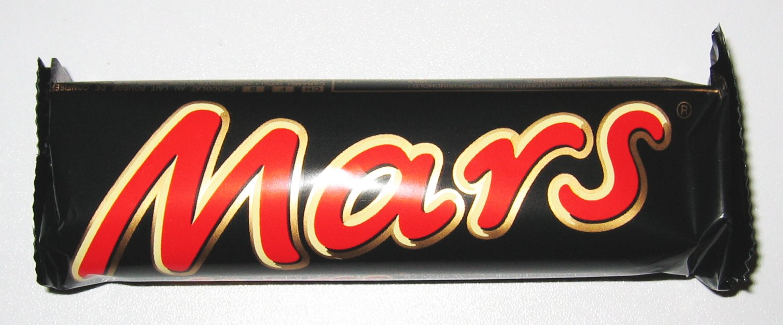 Mars chocolate